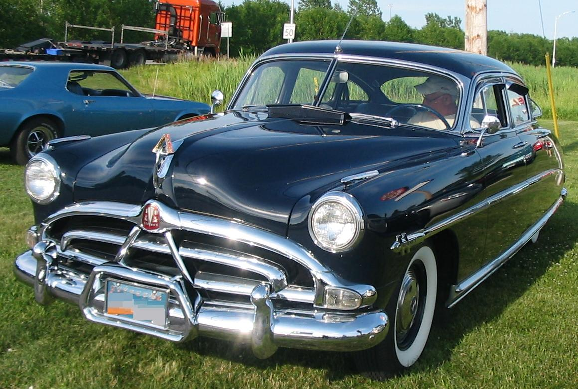 1952 Hudson photographed in Mont St. Hilaire, Quebec, Canada at the Auto classique VAQ Mont St-Hilaire.